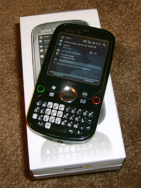 A picture of the Palm Treo Pro and its packaging as carried by the Sprint network.